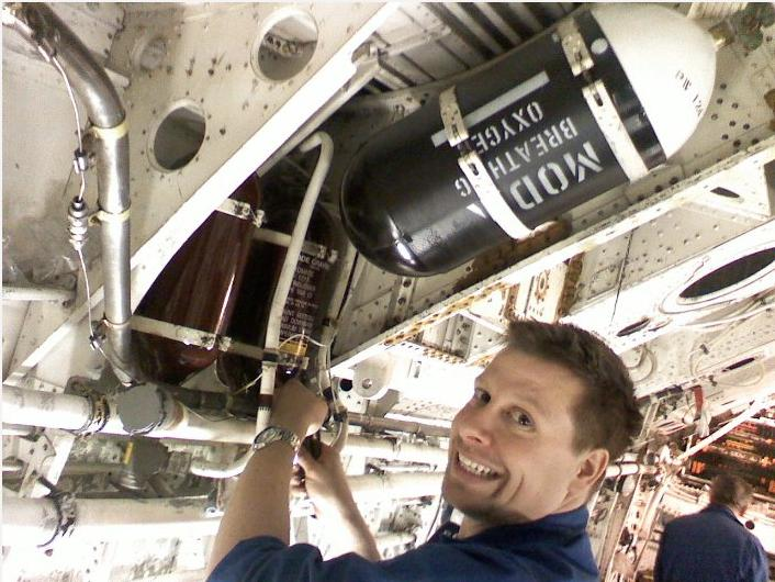 Ollie "Les" Harvey installing a refurbished engine fire-bottle onto XH558